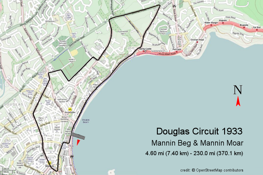 Douglas Circuit 1933 (Isle of Man)